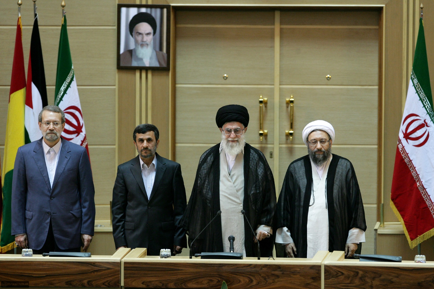 5th International Conference in Support of the Palestinian Intifada, Iran- Tehran- October 2011